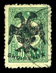 Post stamp of independent Albania